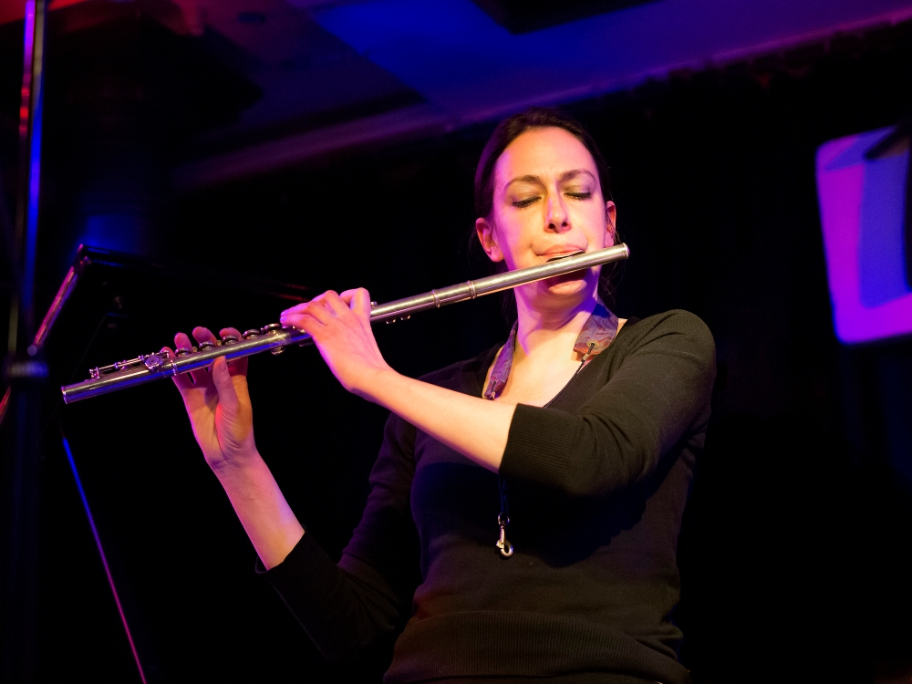 Kathrin Lemke, Jazz flautist; Picture taken in Jazz Club Unterfahrt, Munich/Bavaria